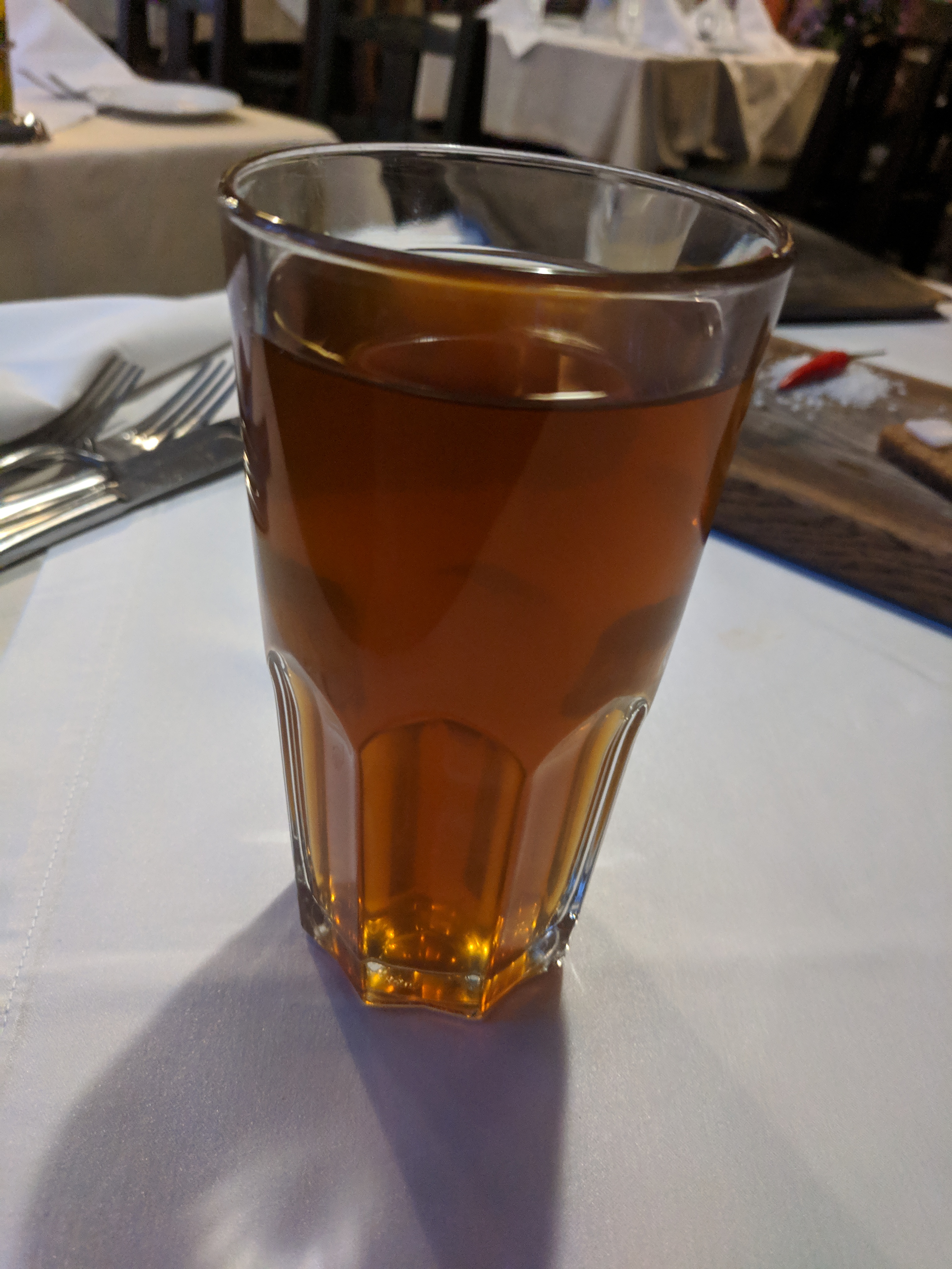 Typical Ukrainian cold beverage